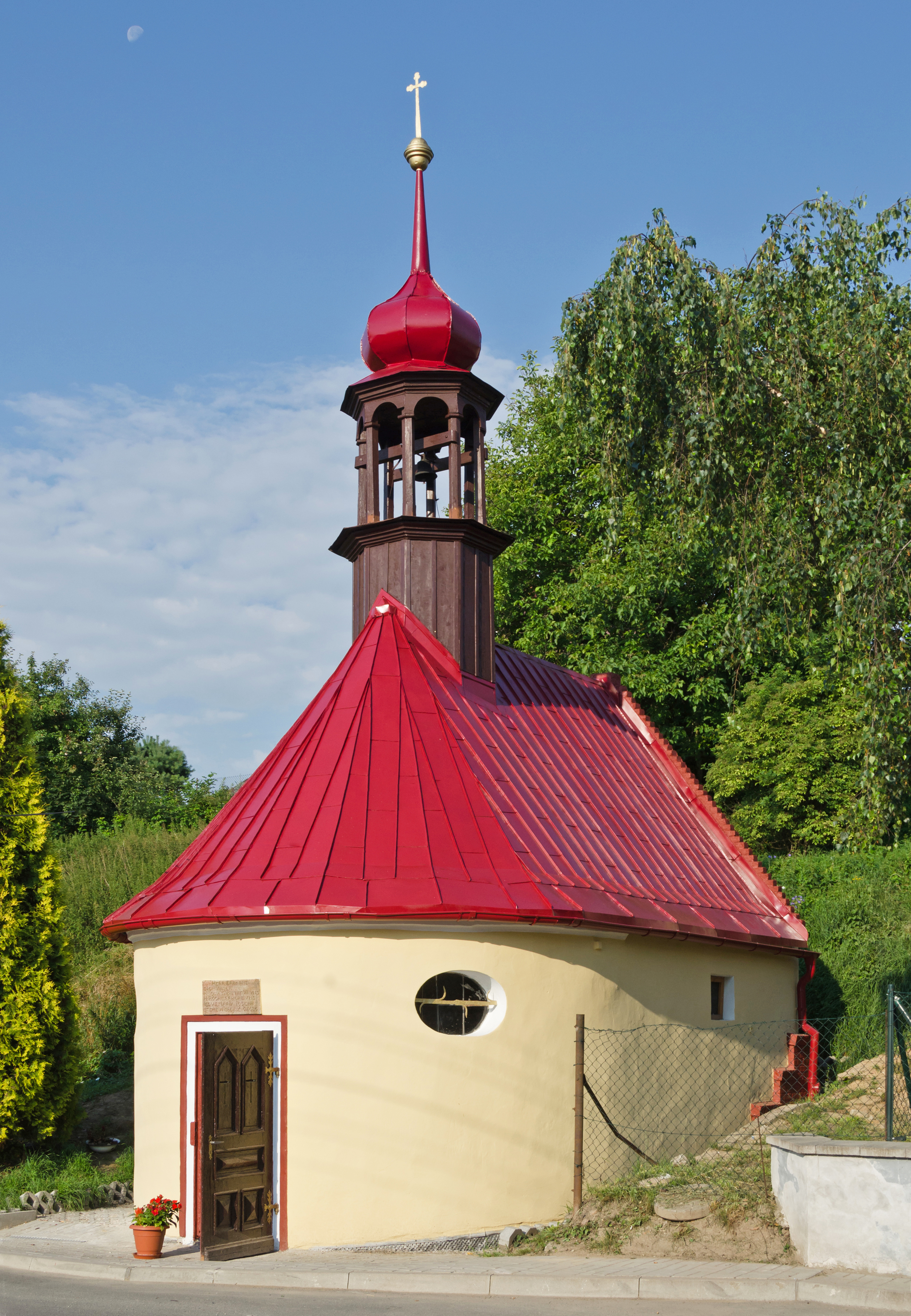 Chapel of St. Ignatius in Kłodzko